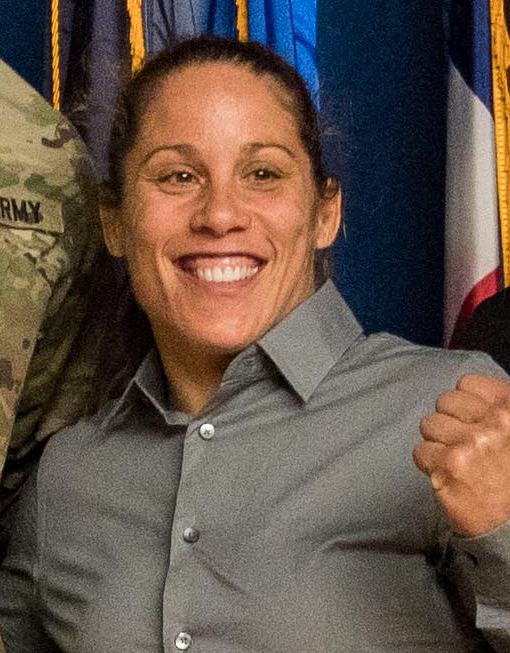 Liz Carmouche visiting service members stationed on Joint Base Myer-Henderson Hall at Rosenthal Theater on Joint Base Myer-Henderson Hall, Virginia, December 5, 2019